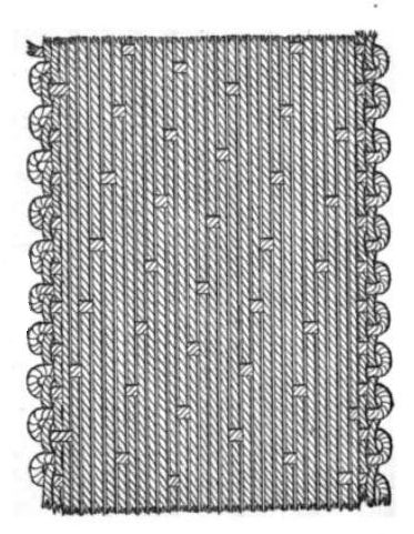 Satin weave (warp-faced) useed in silk weaving, from The History and Principles of Weaving by Hand and by Power by , 1878, S. Low, Marston, Searle & Rivington, London. other versions=Satin weave in silk.jpg